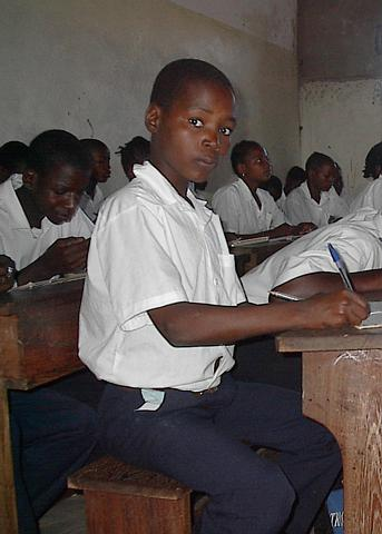 Photo taken by Kolby Granville, 2000, in Mozambique while in Peace Corps. I grant this photo to the public domain.